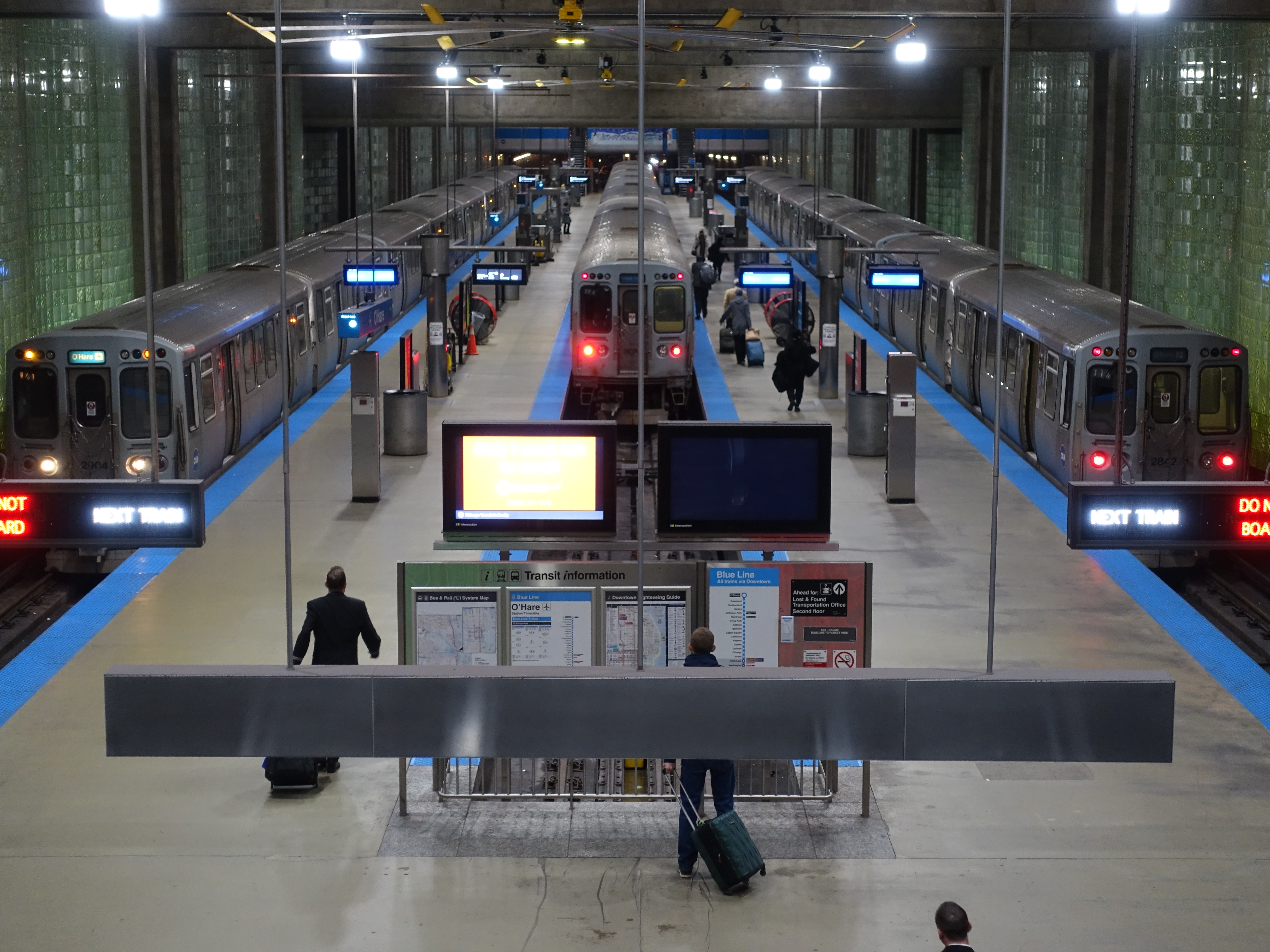 Chicago - O’Hare International Airport Chicago 'L'/ subway station 'O'Hare International Airport' CTA Blue Line Waiting trains bound for 'Forest Park' Wartender Züge Richtung 'Forest Park' DSC00021